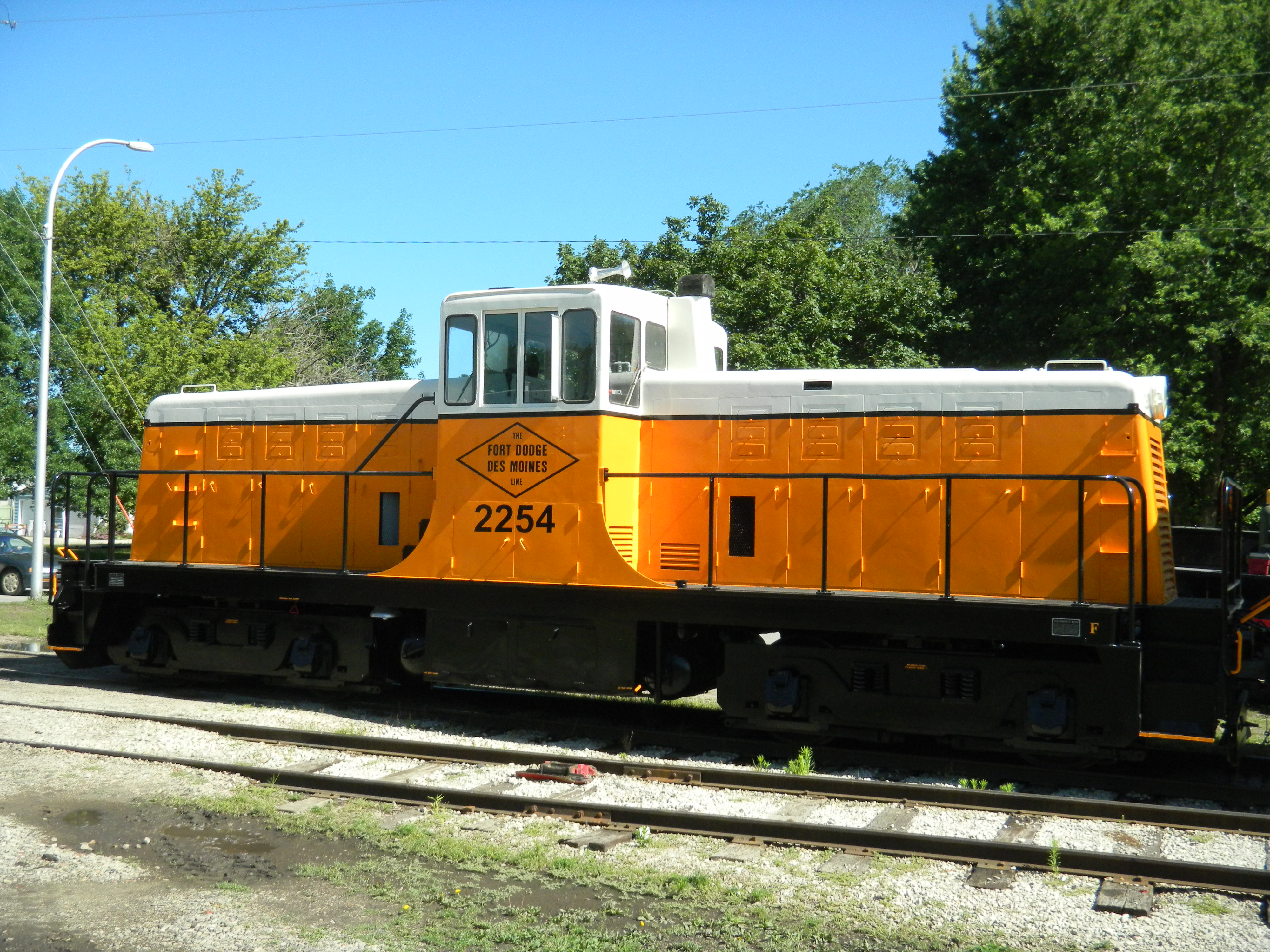 Ex-Fort Dodge and Des Moines 2254 steeplecab at Boone and Scenic Valley Railroad.